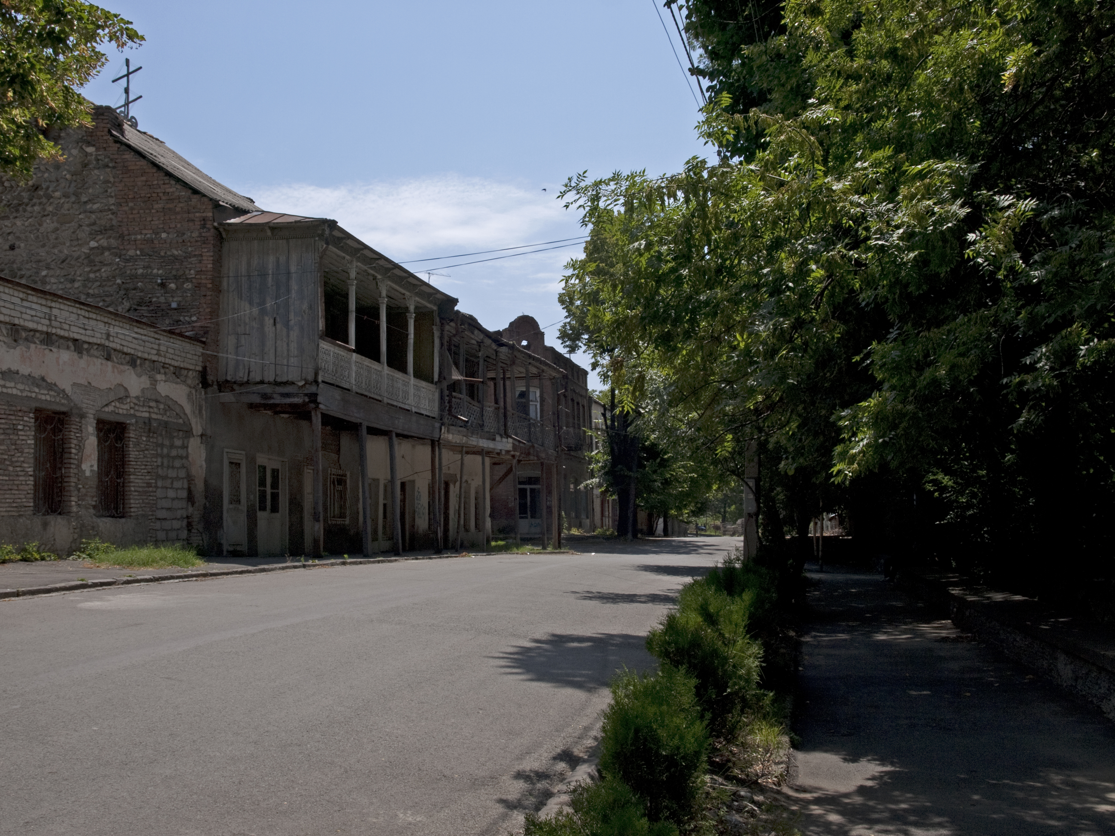 Dusheti, the street above the St. Nicholas Church